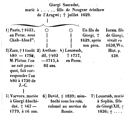 Tarknishvili family tree, descendants of Giorgi Saakadze, "the Great Mouravi", per M.-F. Brosset from his Rapports sur un voyage archéologique dans la Géorgie et dans l'Arménie, vol. 3, p. 35.